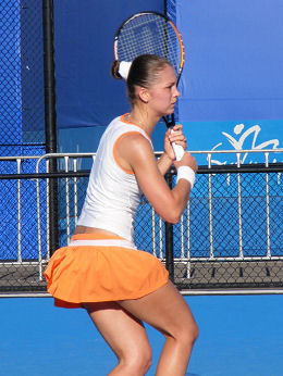 Tatiana Perebiynis. Taken at the 2008 Medibank International. Sydney, Australia. Jan 7th 08.